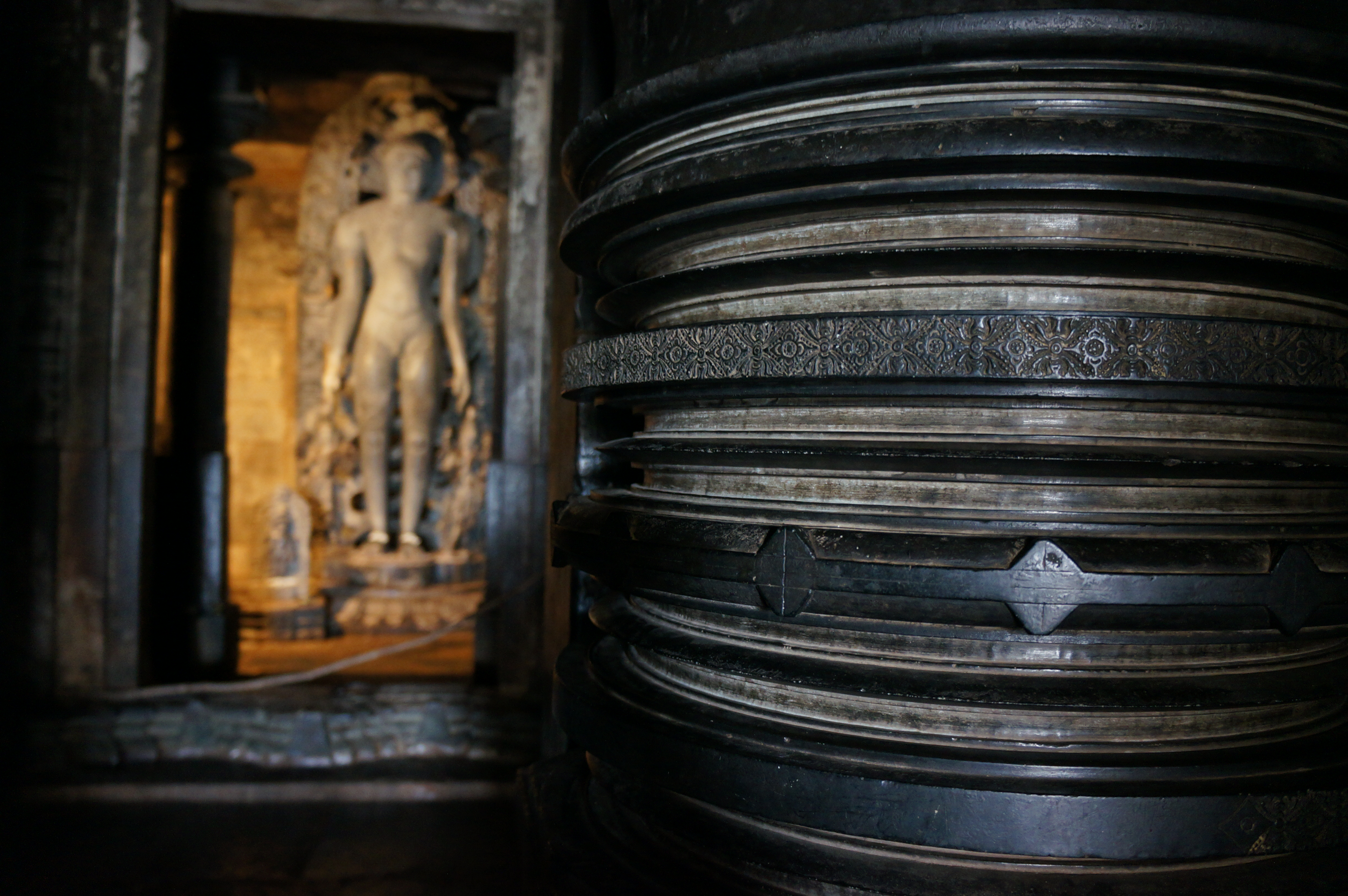 The fine designs on the pillar with Lord Parsvanath in the backdrop